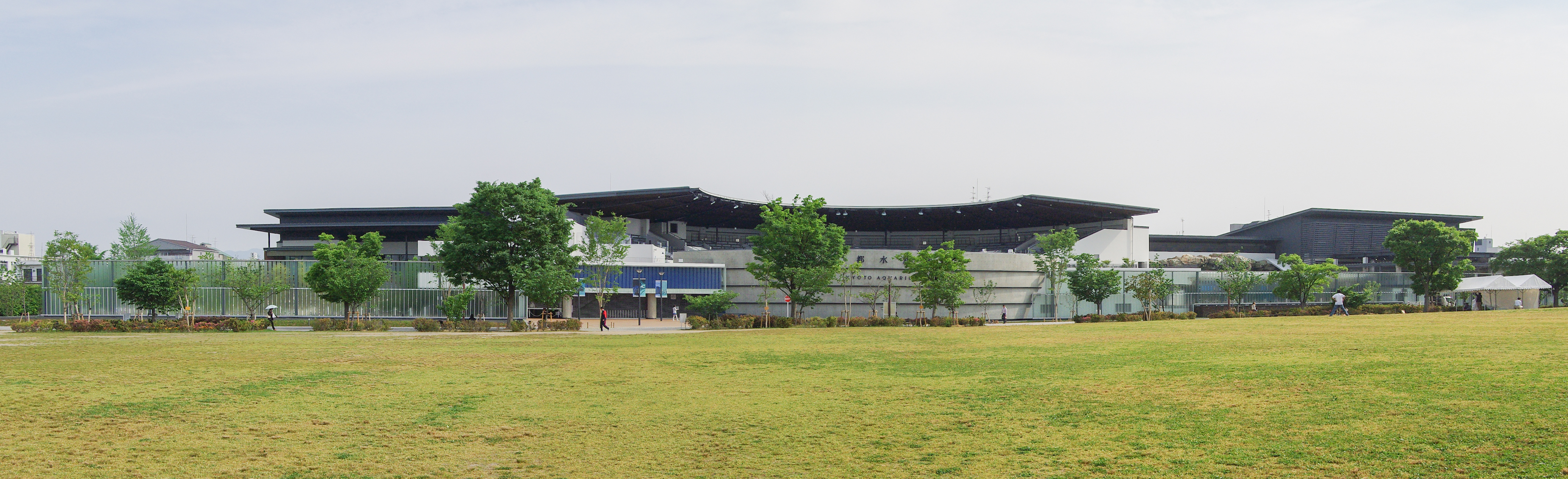 Panoramic photograph of Kyoto Aquarium in Umekoji Park, Shimogyo-ku, Kyoto, Kyoto Prefecture, Japan.